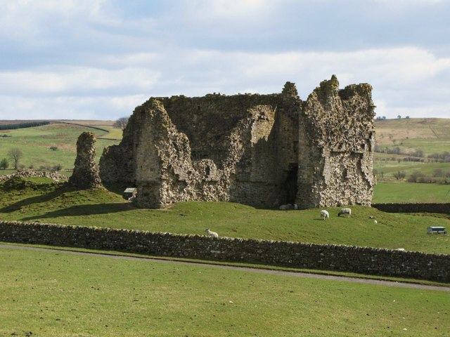 Bewcastle (5), near to Bewcastle, Cumbria, Great Britain. See NY5674 : Bewcastle .